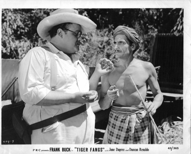 Dan Seymour (left) and Pedro Regas in Tiger Fangs, film now public domain. Source: personal collection